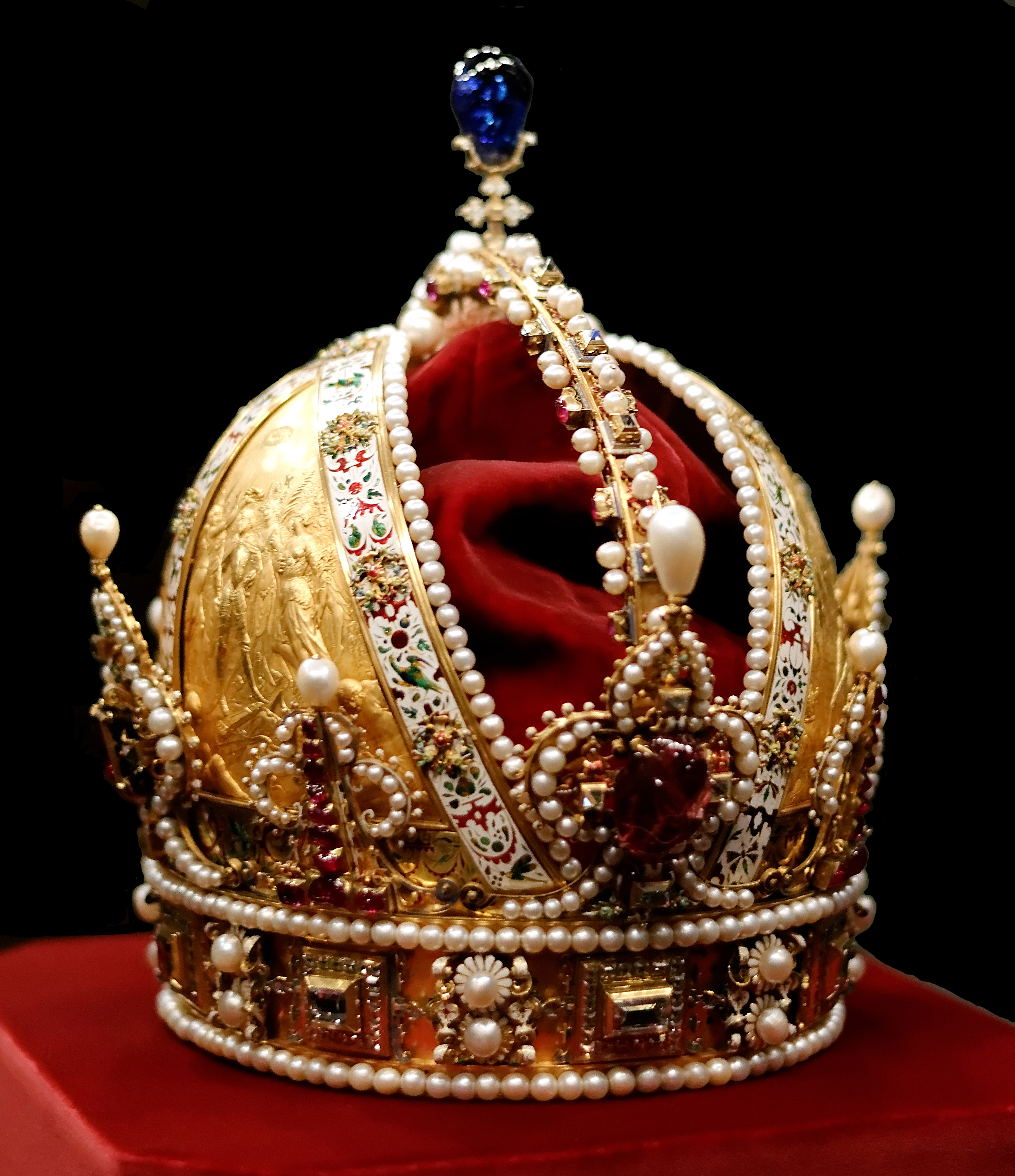 Imperial Crown of Austria.